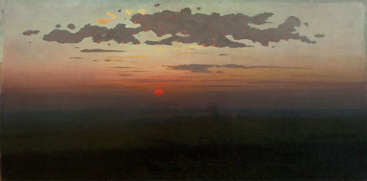 Sunset in steppe (painting by Arkhip Kuindzhi, 1900)